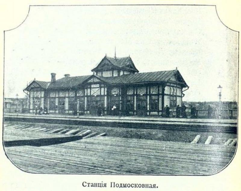 Passenger hall at Podmoskovnaya station in Moscow. This wooden building, built in 1901 in what was then a remote suburb, was for some years used as the terminal of Moscow - Ventspils line, until Rizskiy terminal was completed. In 1950-s this station was rebuild.